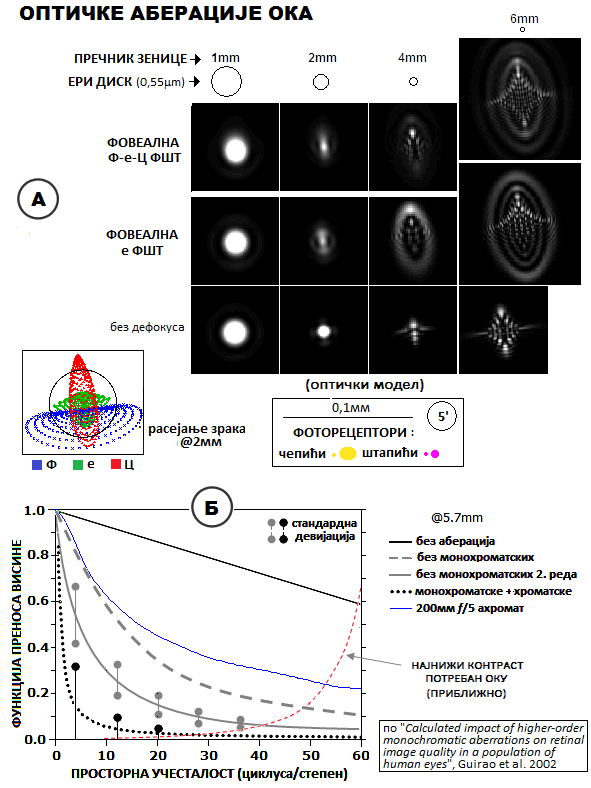 УКУПНЕ ОПТИЧКЕ АБЕРАЦИЈЕ ОКА